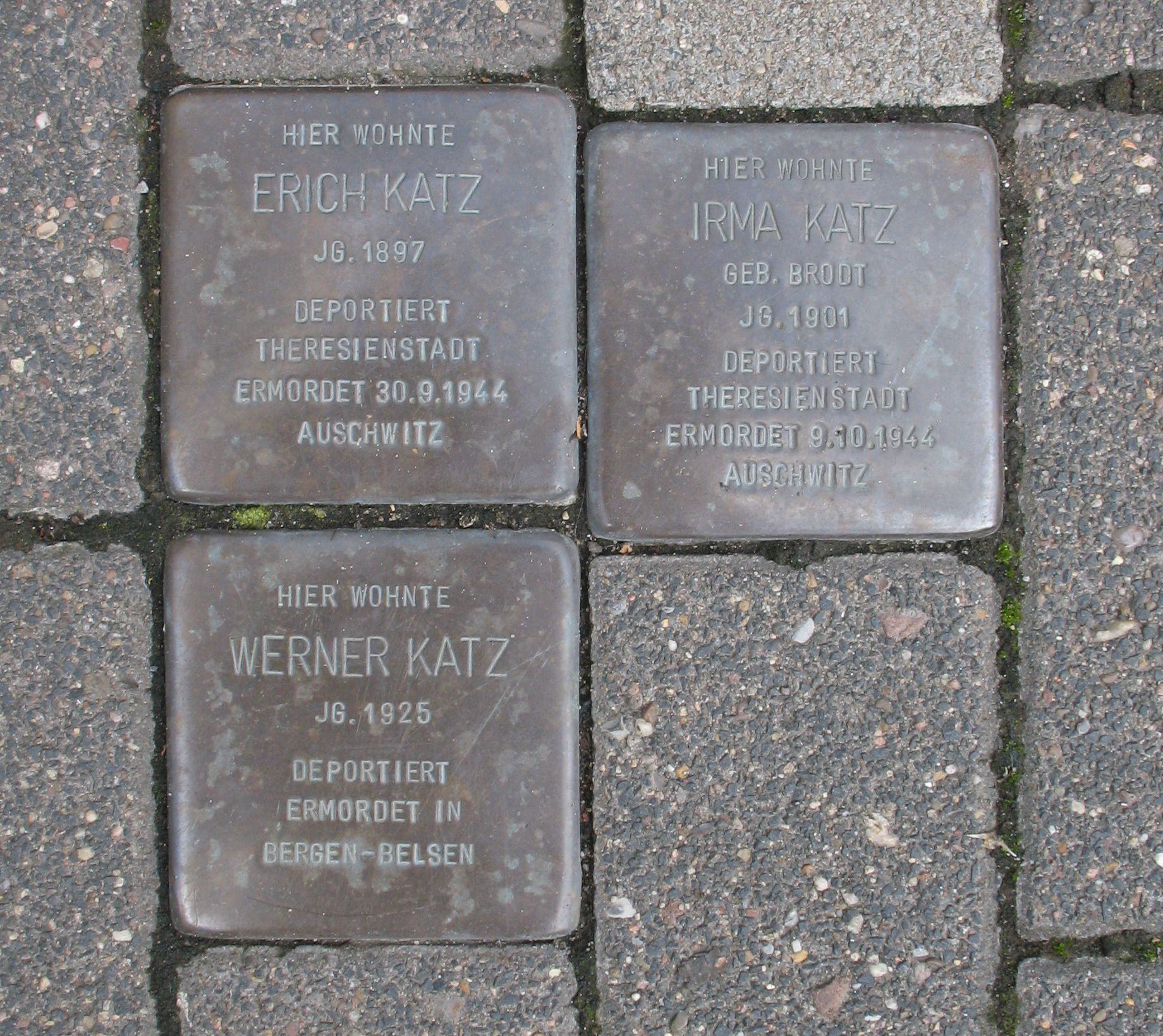 "Stumbling blocks" in Vlotho in North Rhine-Westphalia, Germany